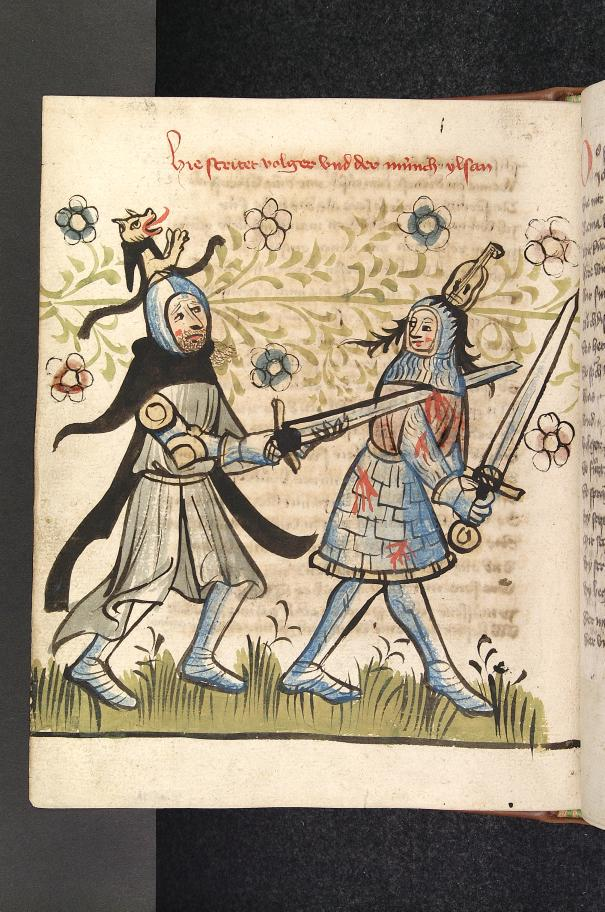 The picture shows a fight between the monch Islan (left) and Volker von Alzey (right), it is taken from "der Rosengarten von Worms" , a text from the handwriting Cod.Pal.germ.359.